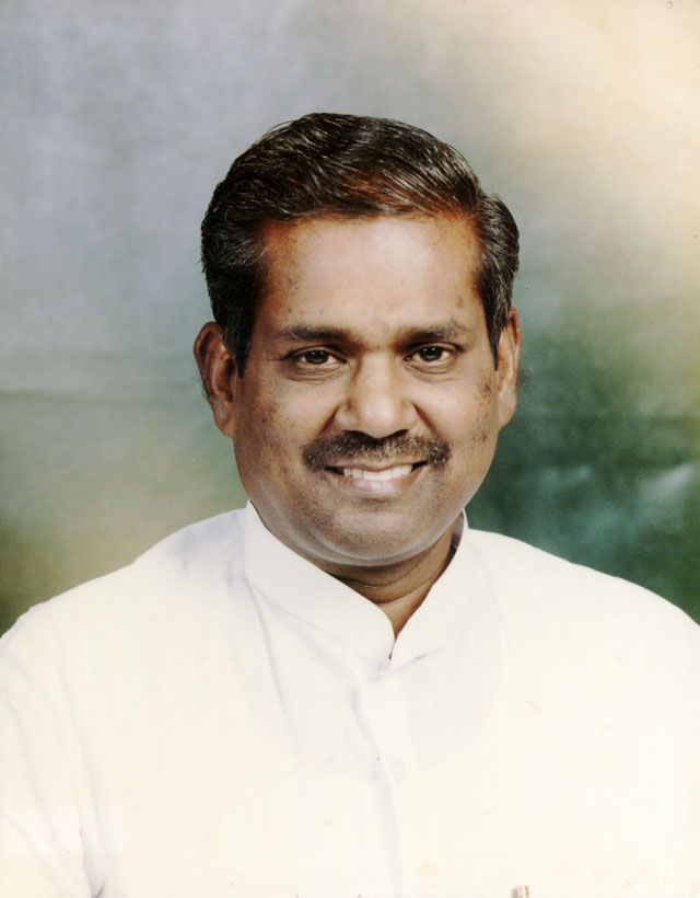 Passport photo